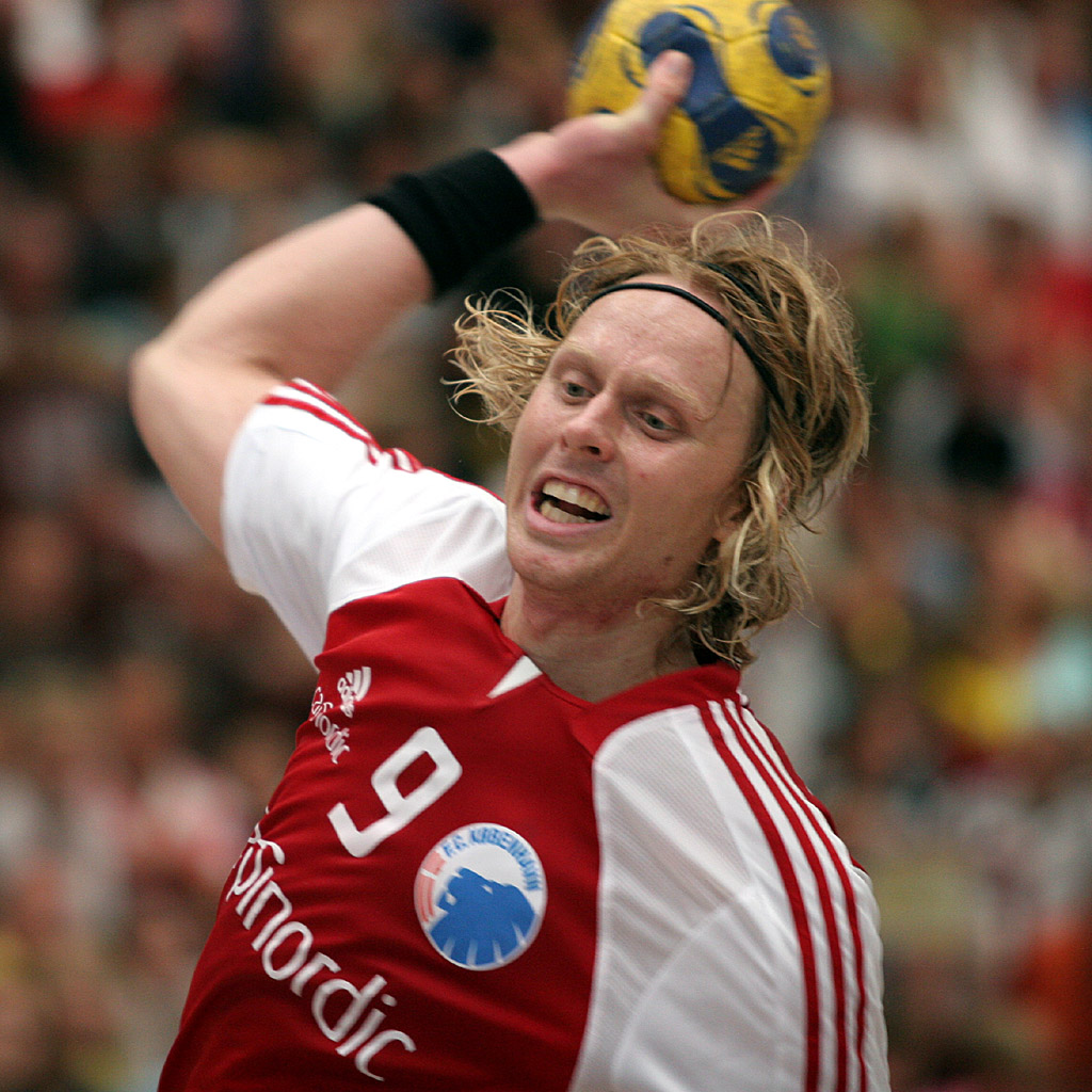 Erlend Mamelund, Norwegian handball player from FCK Håndbold, in Ehingen (Germany), during Schlecker Cup 2009.